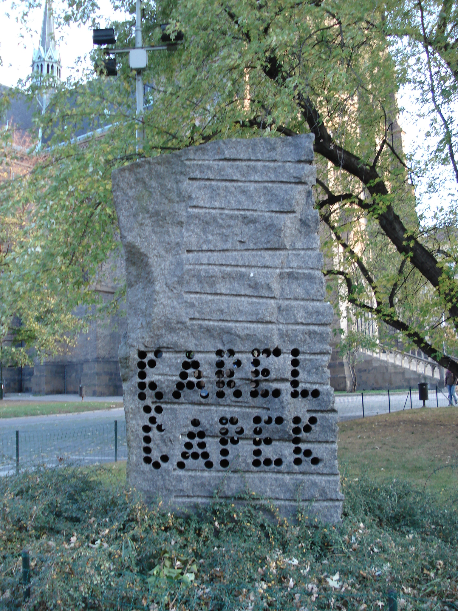 Monument to Josef & Karel Capek {Karel's side - see also Josef's).